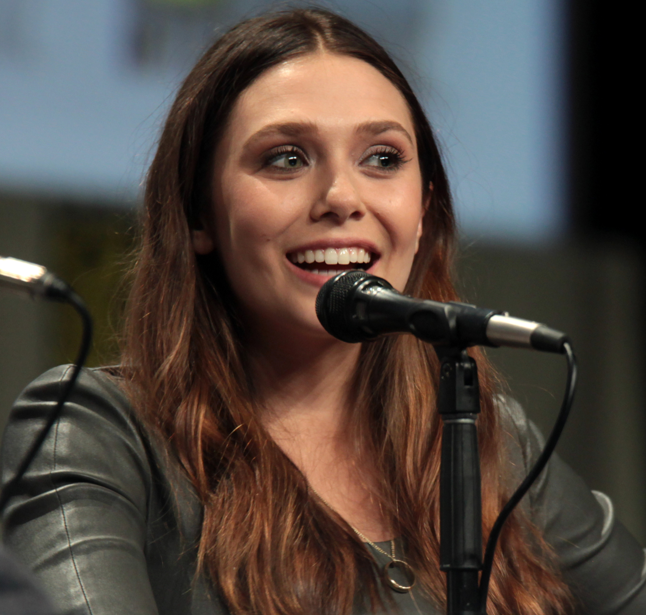 Elizabeth Olsen speaking at the 2014 San Diego Comic Con International, for "Avengers: Age of Ultron", at the San Diego Convention Center in San Diego, California.